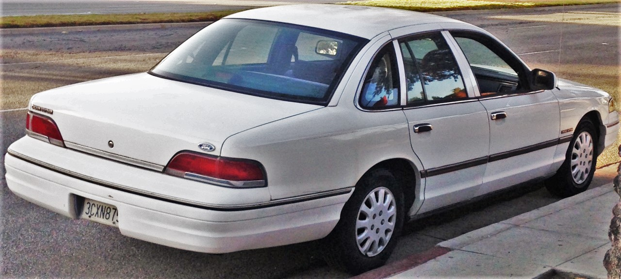 Ford Crown Victoria Panther (Second Generation)